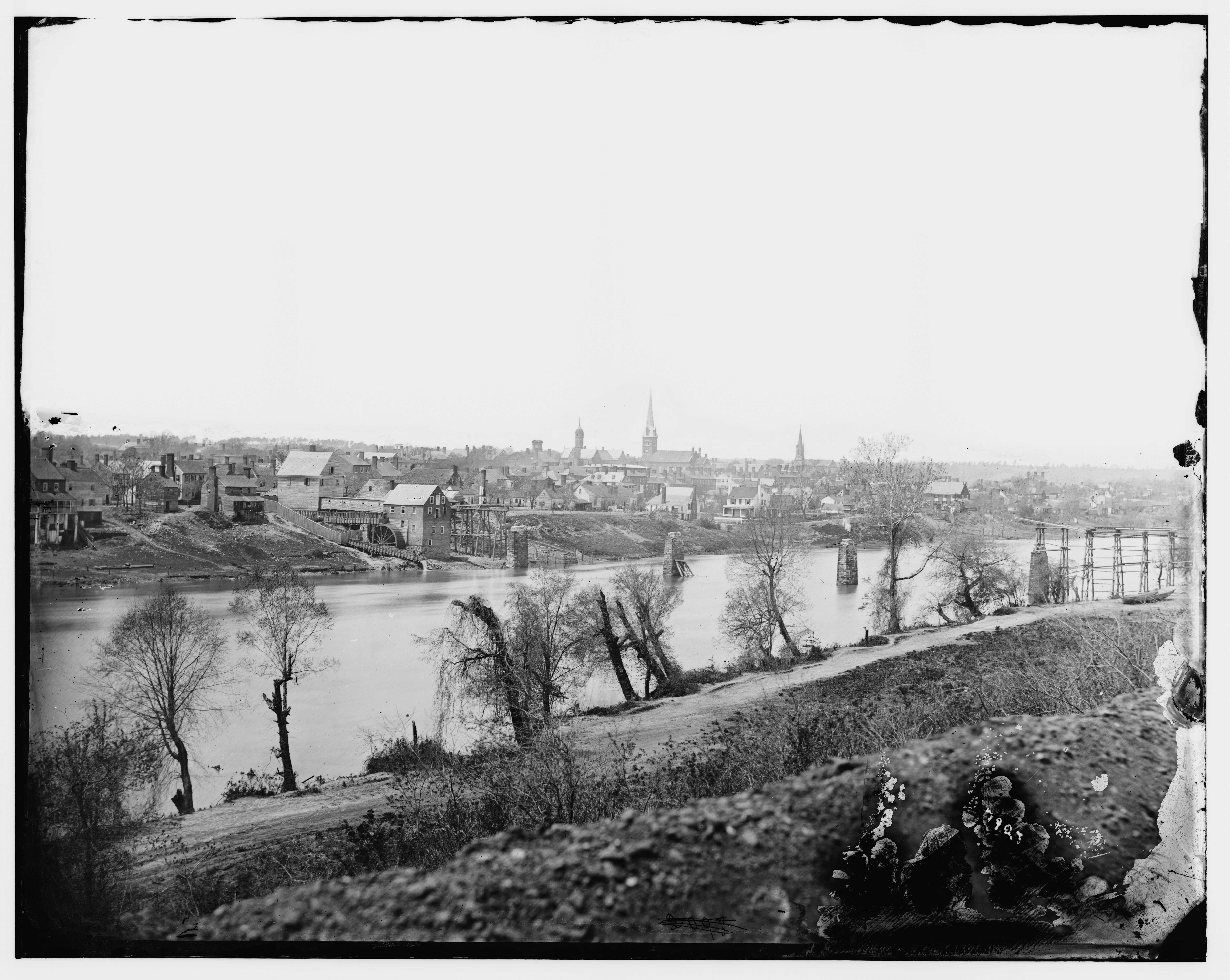 Fredericksburg, Va. View of town from east bank of the Rappahannock]. Photograph from the main eastern theater of the war, Burnside and Hooker, November 1862-April 1863.